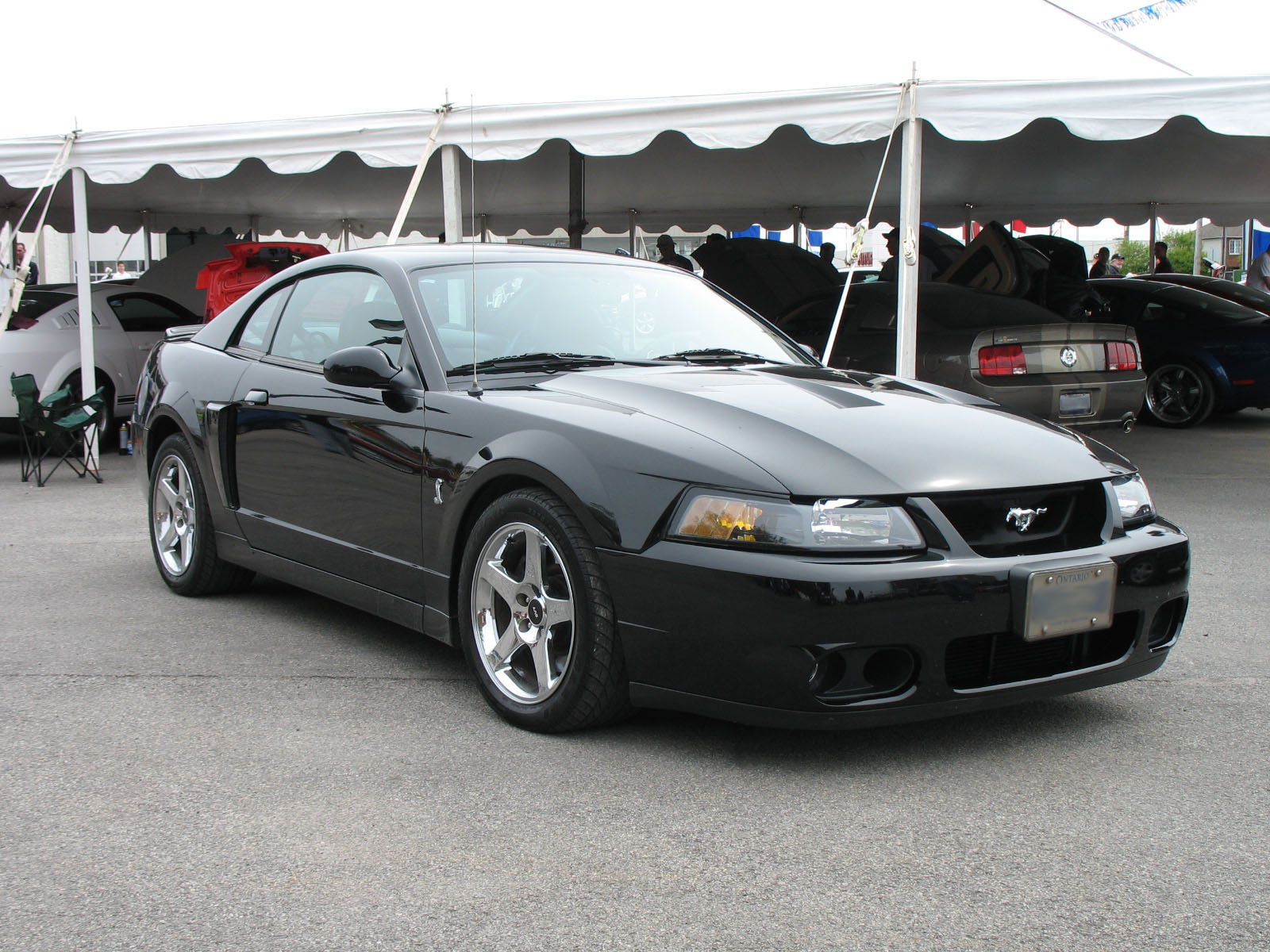 2003-2004 Ford Mustang Cobra